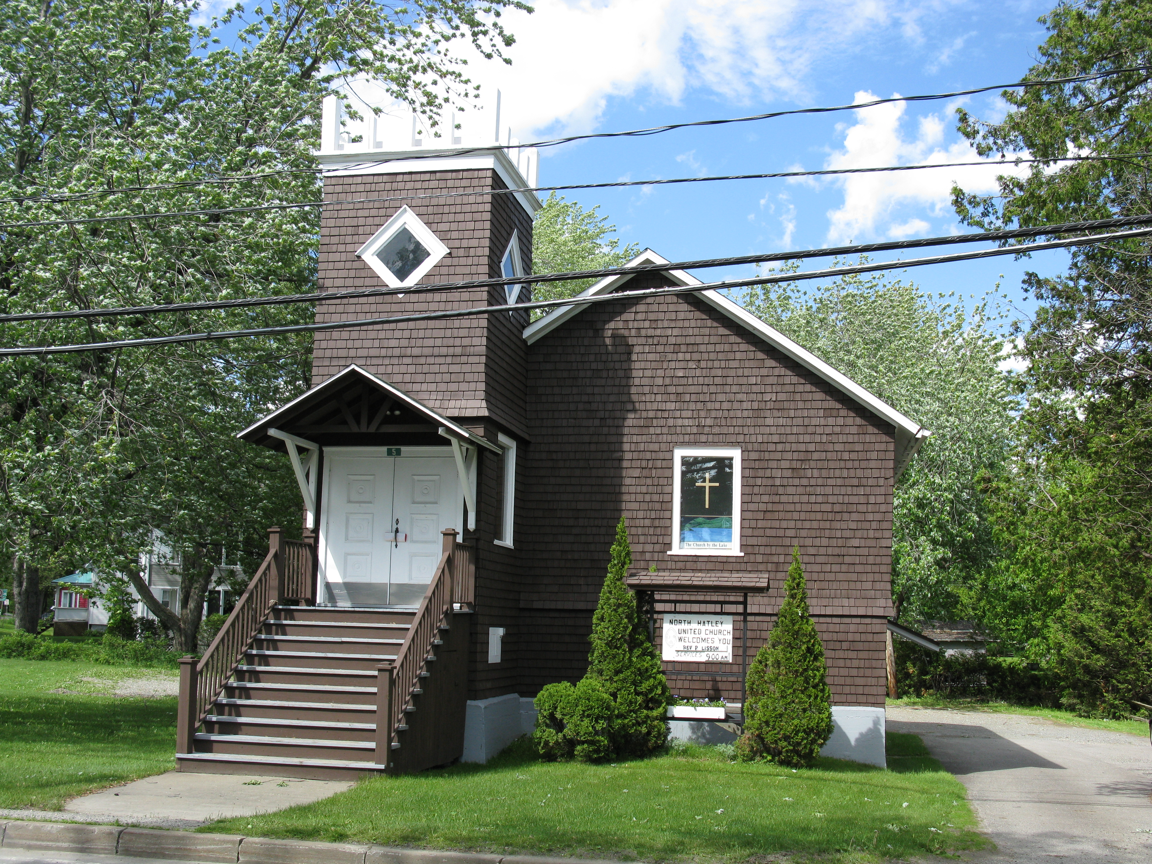 North Hatley United Church.